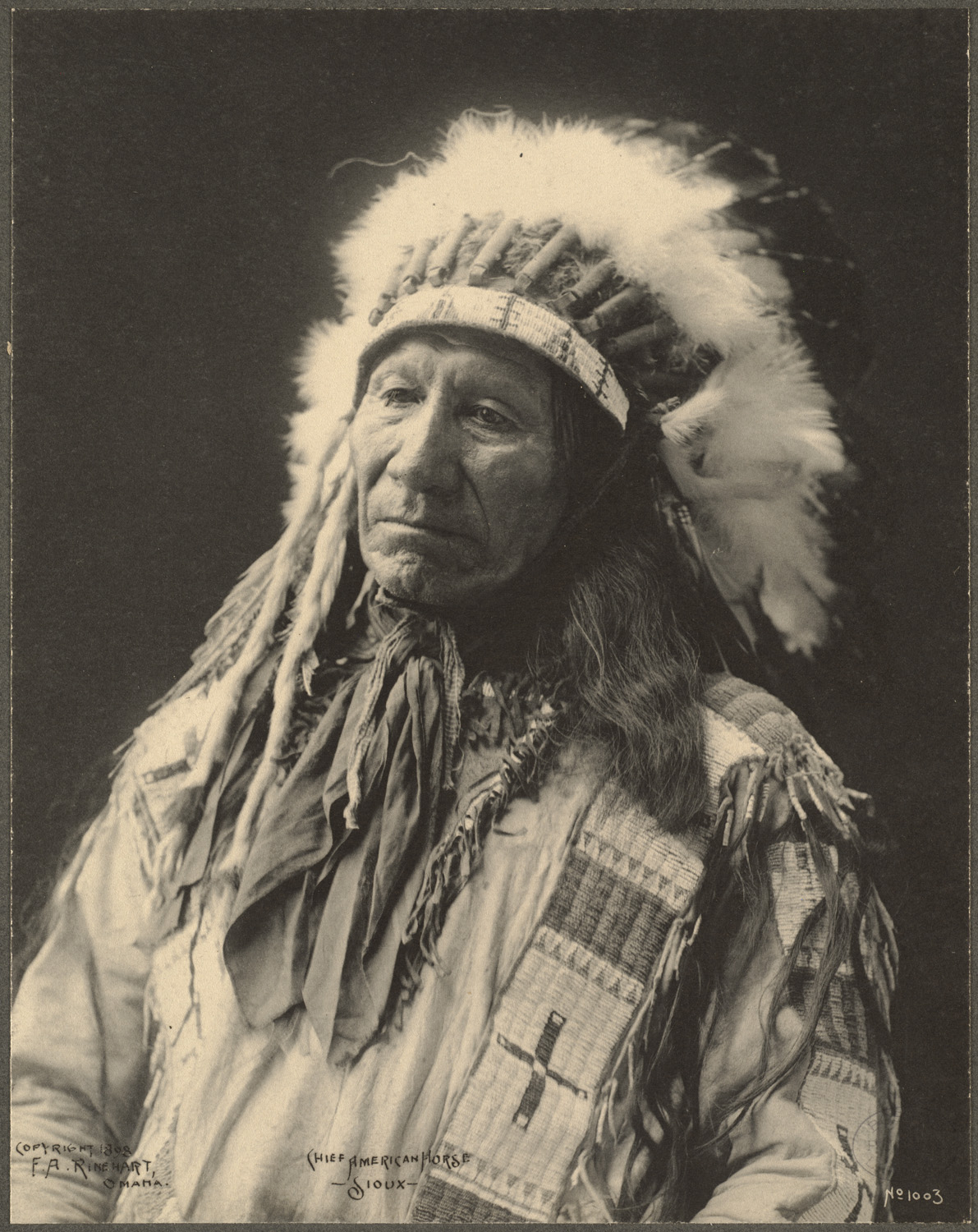 BPLDC no.: 09_06_000029 Rinehart no.: 1003 Title: Chief American Horse, Sioux Photographer: Rinehart, F. A. (Frank A.) Copyright date: 1898 Extent: 1 photographic print : platinum Genre: Platinum prints; Portrait photographs Subject: Indians of North America; Dakota Indians; Trans-Mississippi and International Exposition (1898 : Omaha, Neb.) BPL Department: Print Department